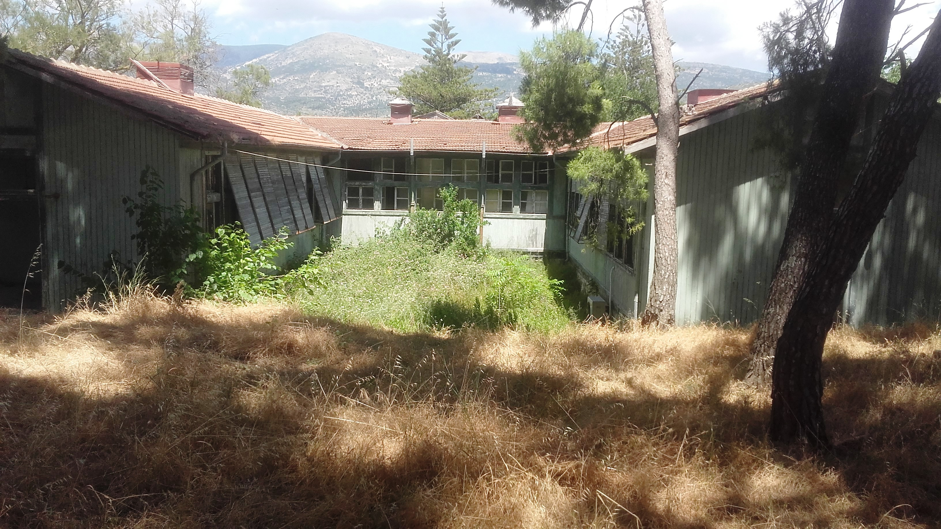 Wooden temporary housing in Argostoli offered by the Swedish government to be used as hospital, after the 1953 earthquake.